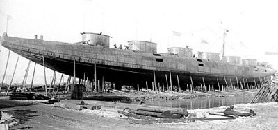 The S.S. Christopher Columbus was a whaleback excursion liner designed by Alexander McDougall and built in 1892-1893 in Superior, Wisconsin by American Steel Barge Company for service to ferry passengers to and from the World's Columbian Exposition, and later placed in general and excursion service to various ports around the Great Lakes. This photo, used on a postcard, was taken during construction at the American Steel Barge Company facility in Superior, Wisconsin.